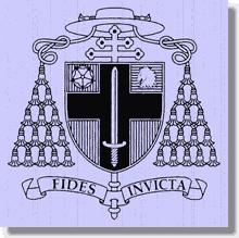 School logo/badge of Cardinal Heenan Catholic High School, Liverpool